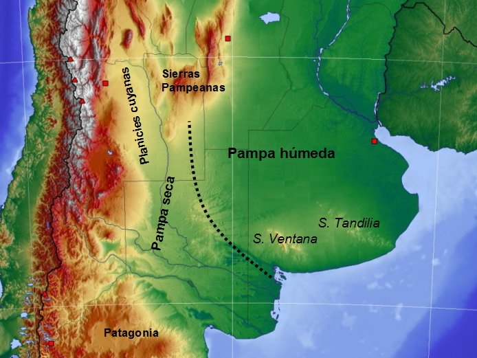 Pampean region. Argentina. Map. The border between the wet pampa and the dry pampa is an approximation based on the isohyetal line of 500 mm.